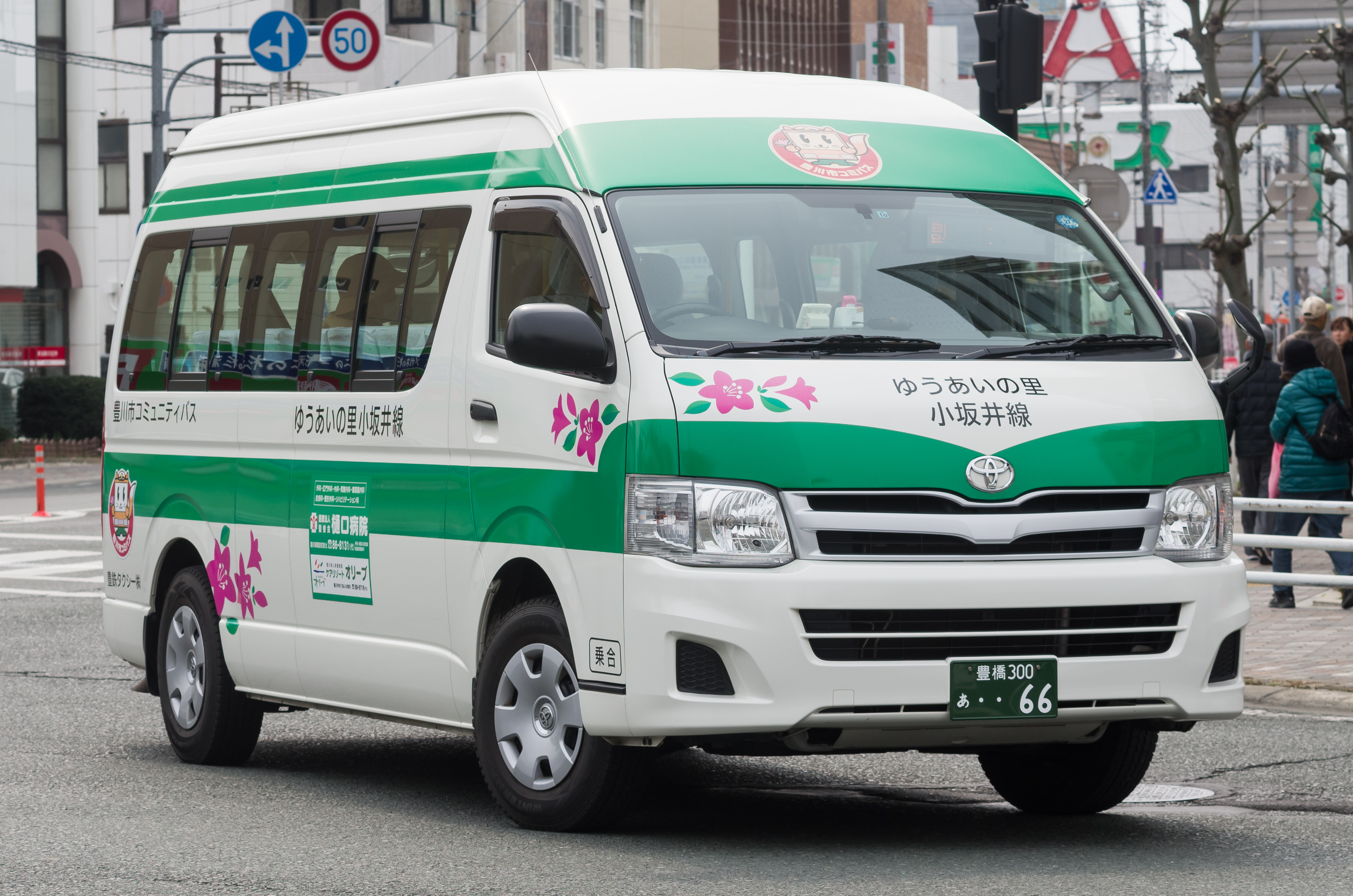 Vehicle of Toyokawa City Community Bus Yuai-no-sato Kozakai Route